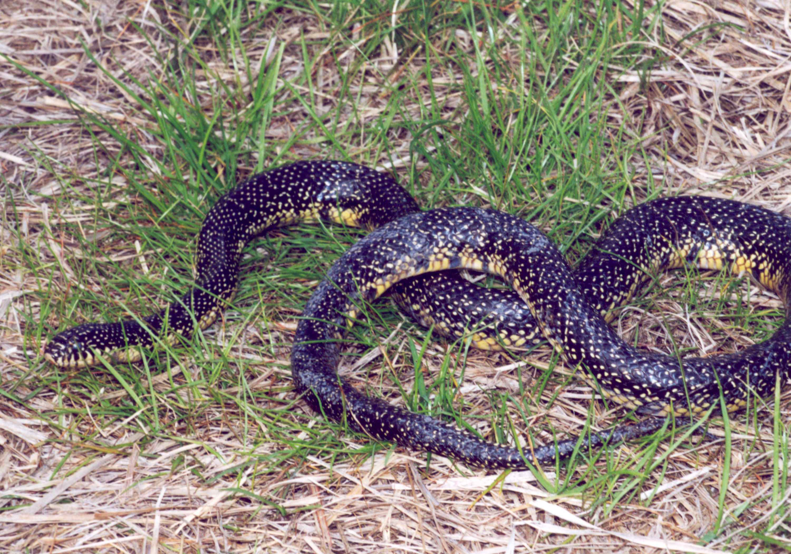 Image title: Speckled king snake lampropeltis getula holbrooki stejneger Image from Public domain images website